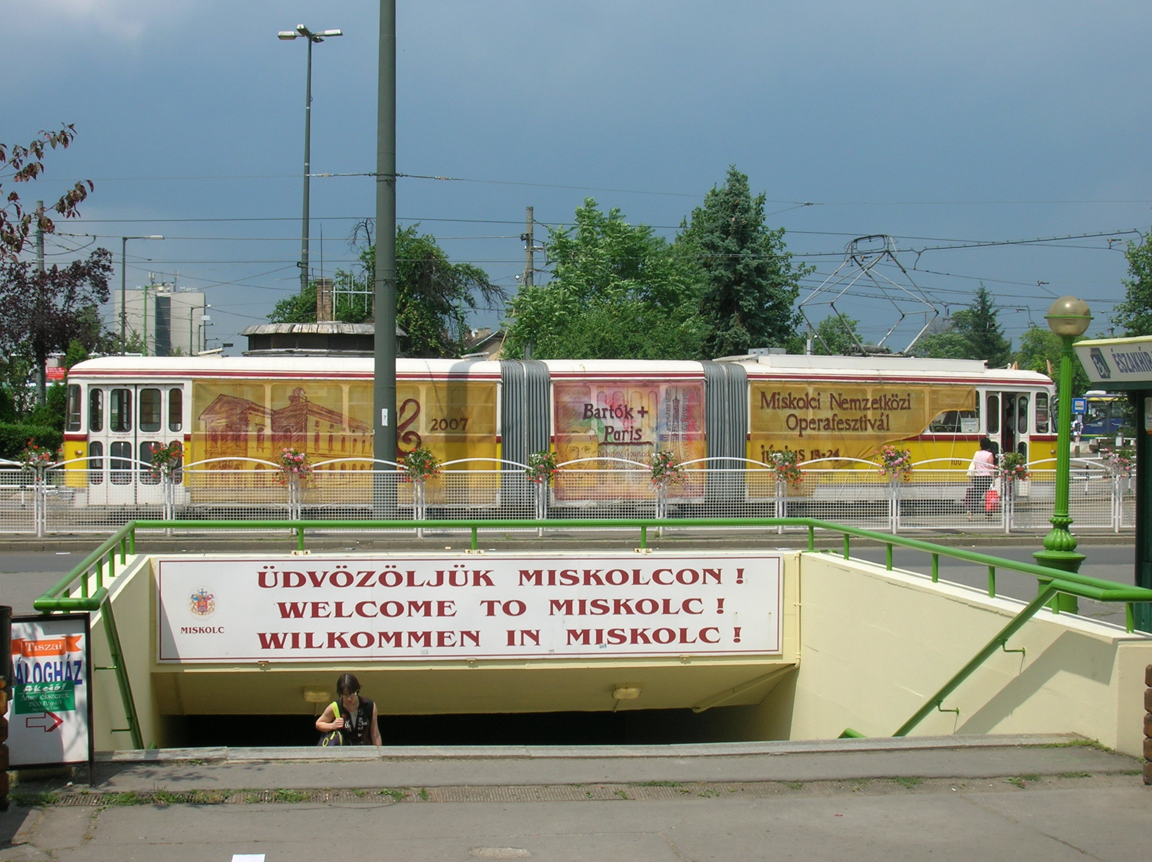 The underpass leading to the city from Tiszai railway station, Miskolc. The tram waiting nearby advertises the International Opera Festival which was taking place when this photo was taken. The tram is car No. 100, which was built in 1962 by FVV.